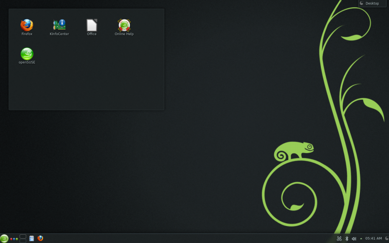 KDE desktop 4.10 on openSUSE 12.3